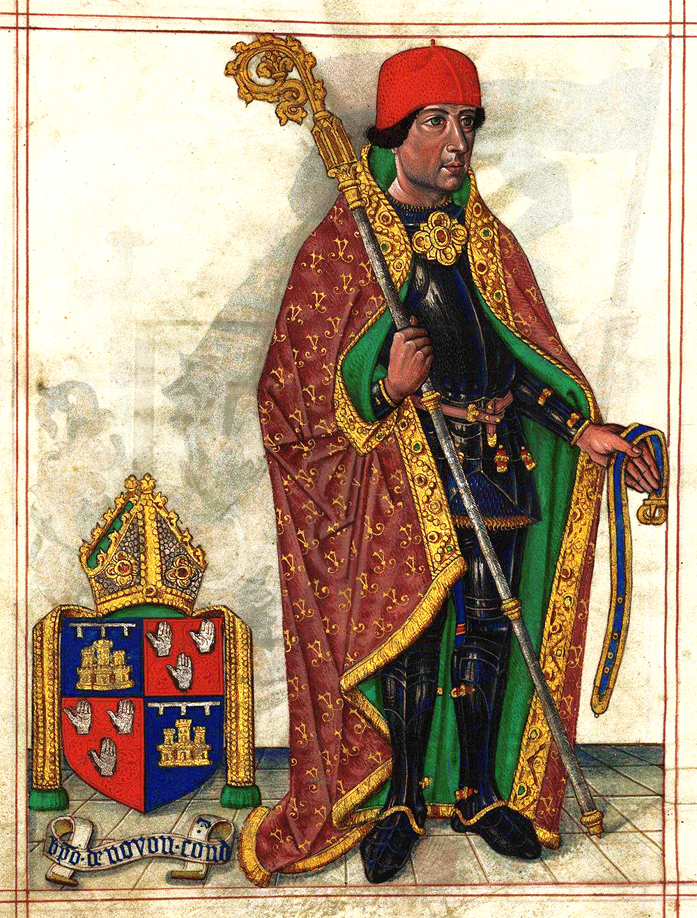 Bishop-Count of Noyon